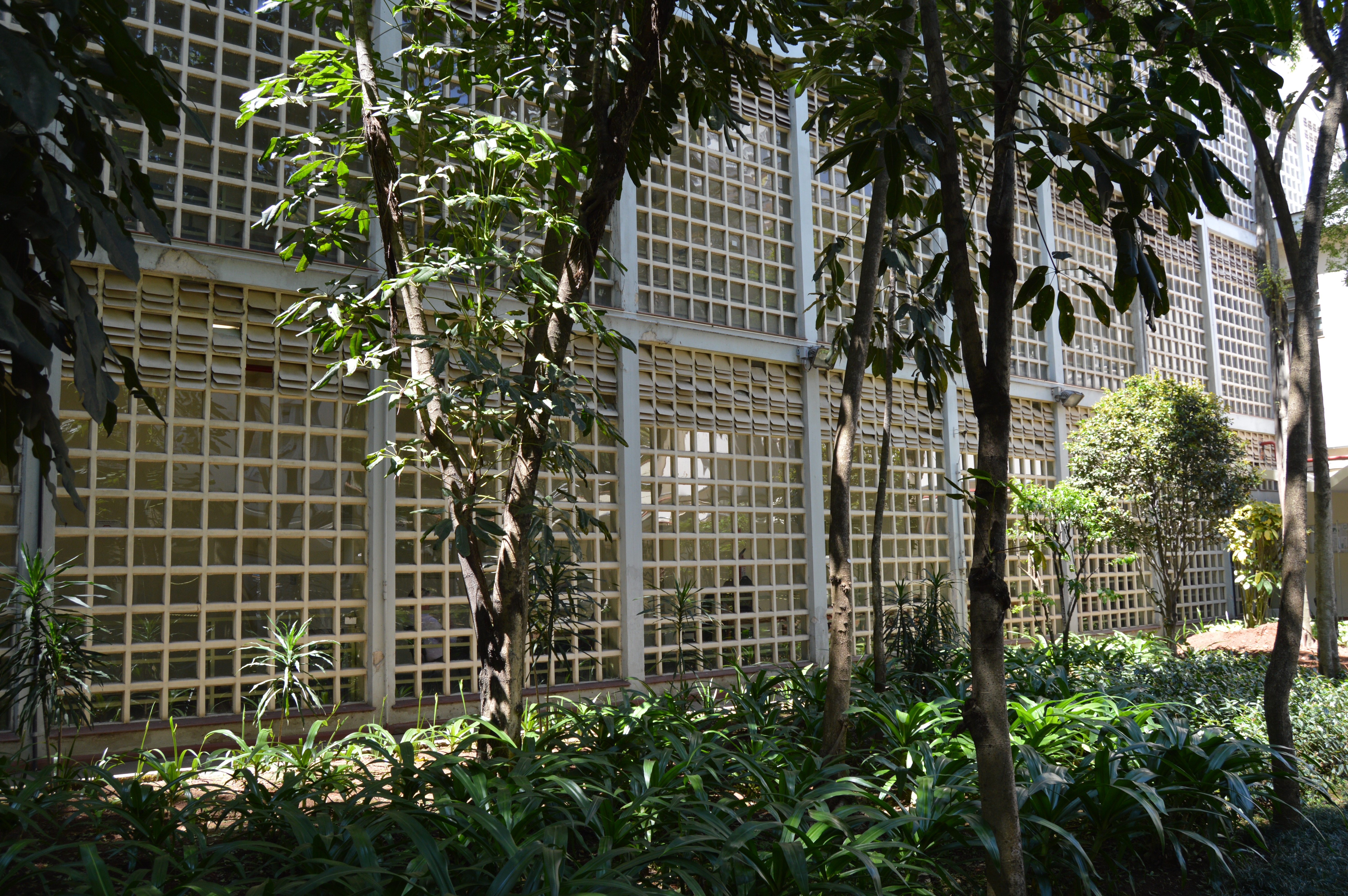 Wall of the second building front to the yard